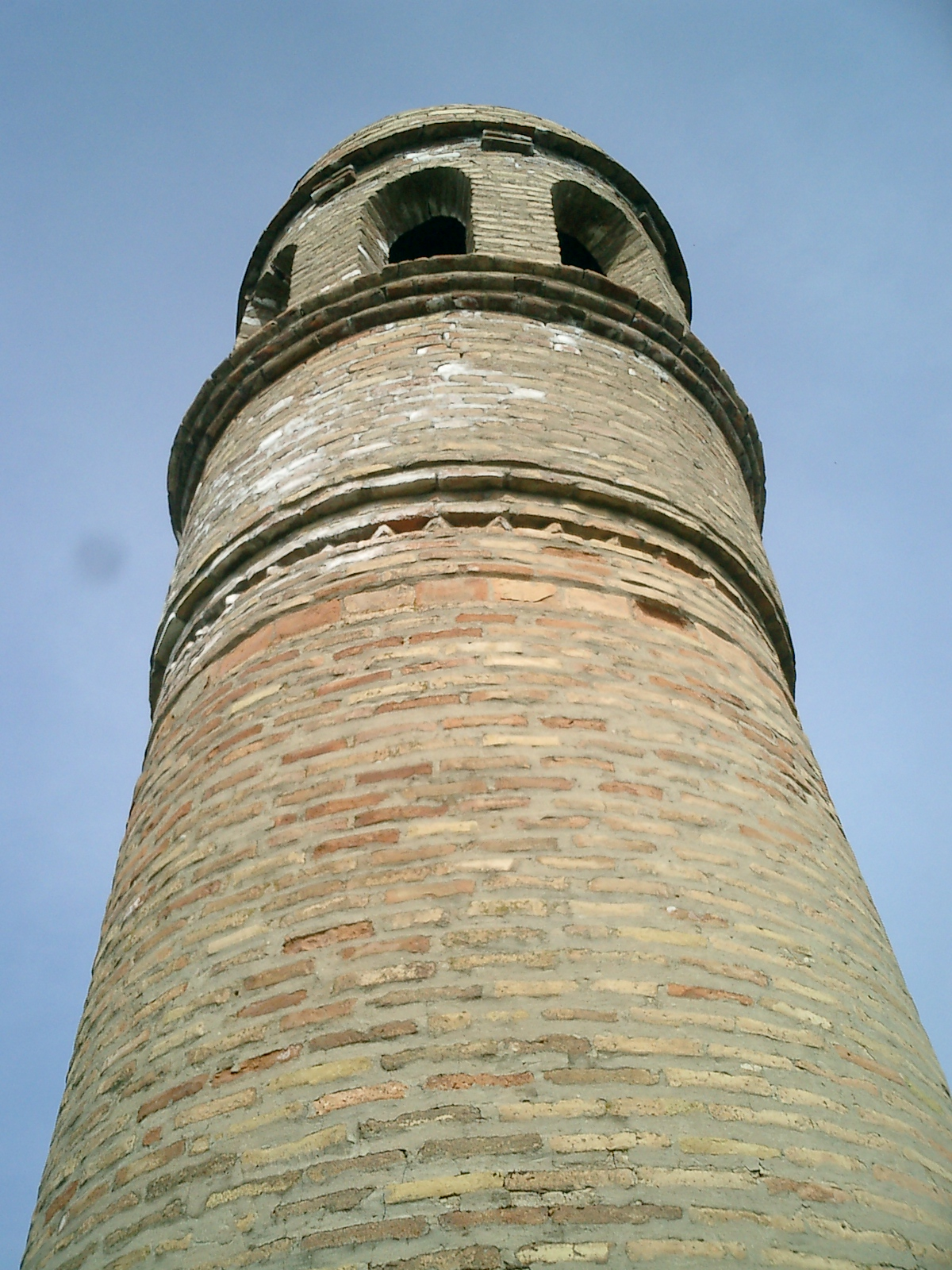 This is a photograph that I [Michael Hancock] took of the minaret that stands in Sayram, Kazakhstan. The minaret used to be attached to the Kydyr mosque, which is no longer standing. Markings on the minaret [not shown in photograph] date it to the tenth century.